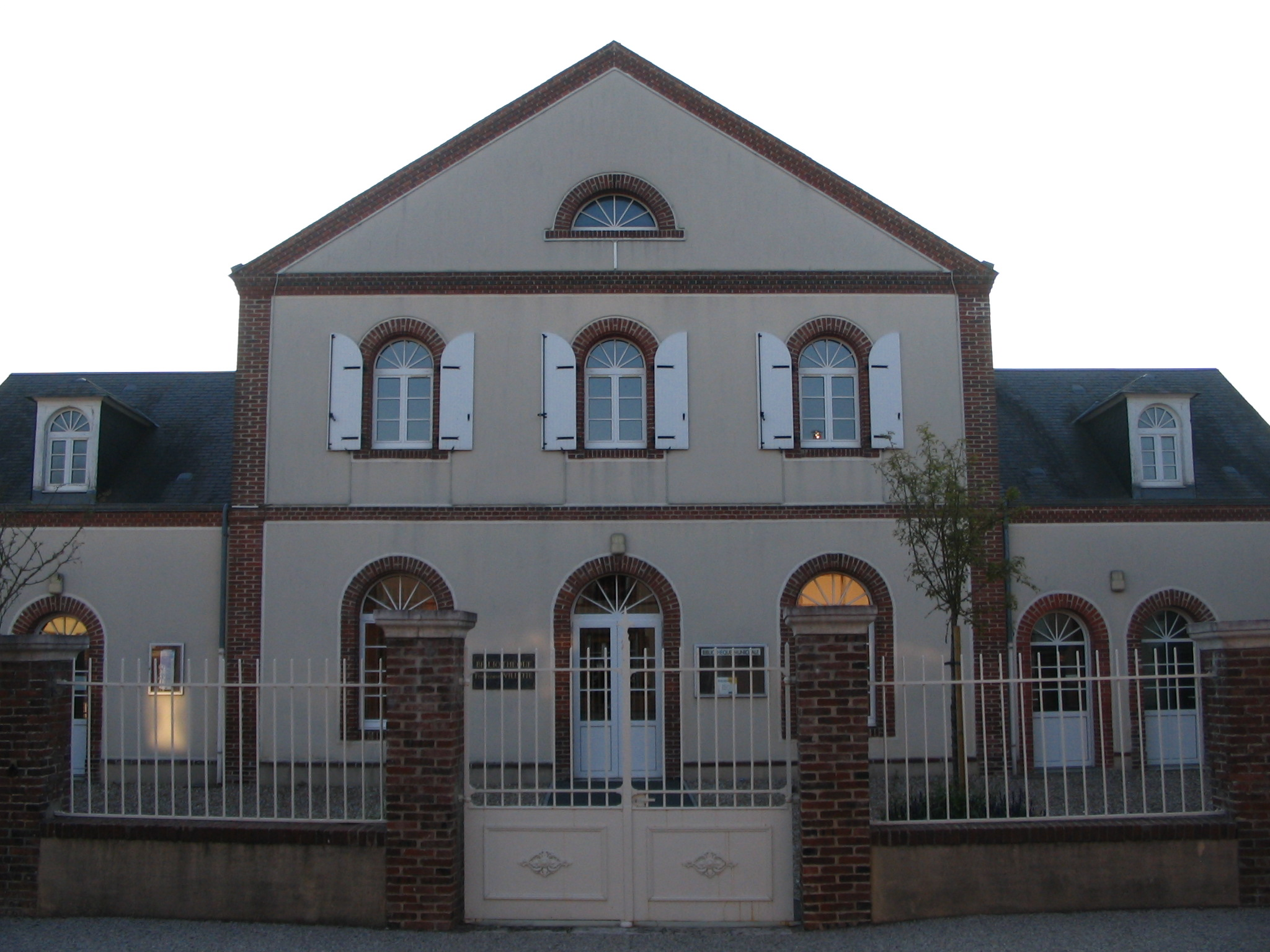 The public library of Arrou, Eure-et-Loir, France